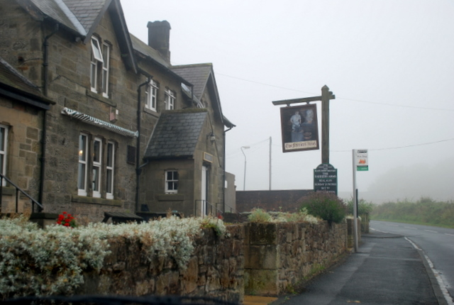 The Farriers Arms Shilbottle's public house.